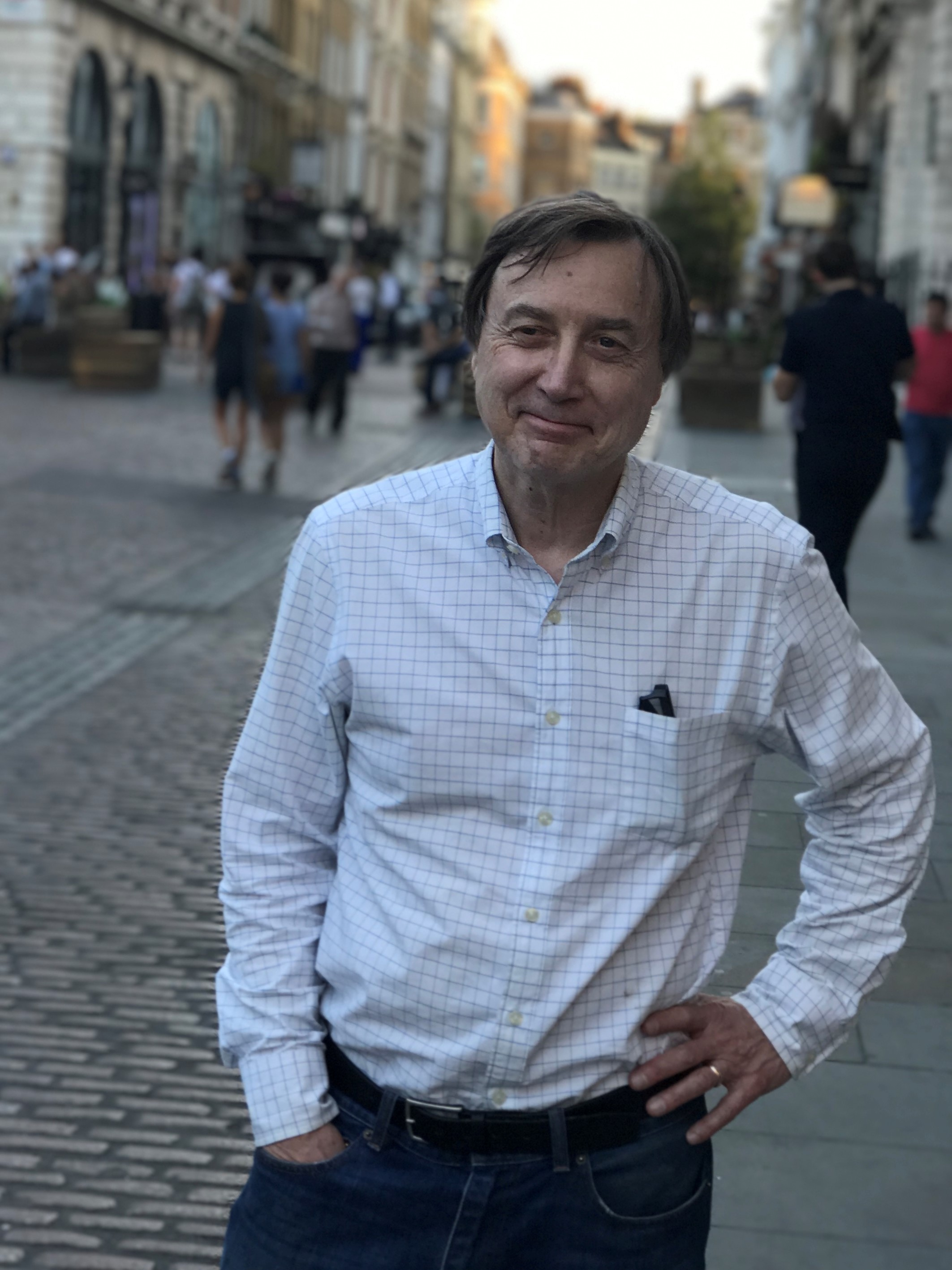 Gregory in London, Summer 2017